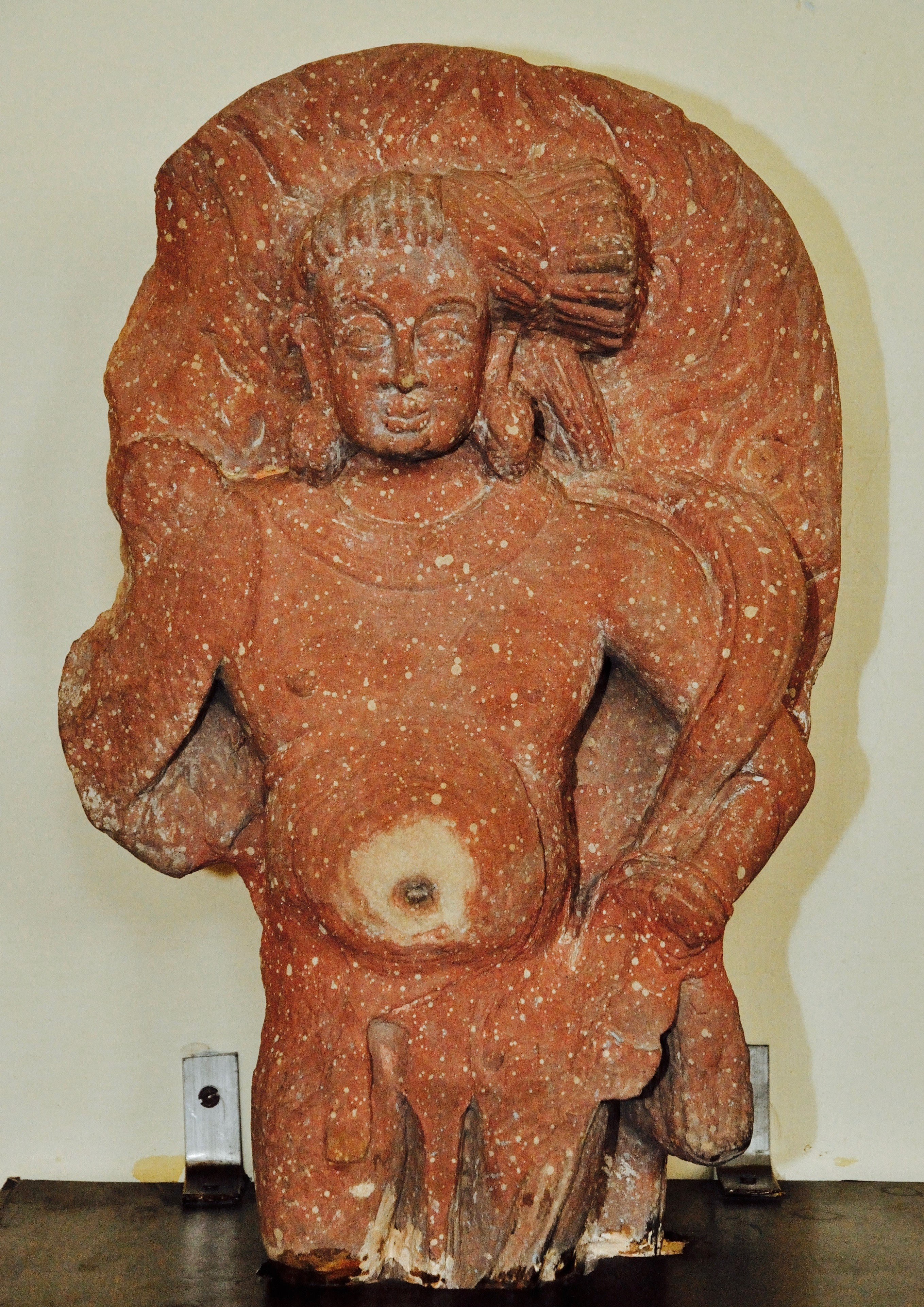 This artefact resides at the Government Museum, (hi: Rashtriya Sangrahalaya) formerly The Curzon Museum of Archaeology, Museum Road or Murari Lal Rajpal road, Dampier Nagar, Mathura, Uttar Pradesh, India. This museum is administrating by the State Government of Uttar Pradesh of India.